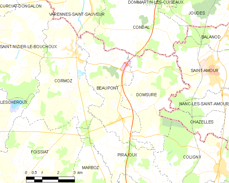 Map of French commune: Beaupont Map commune FR insee code 01029.png